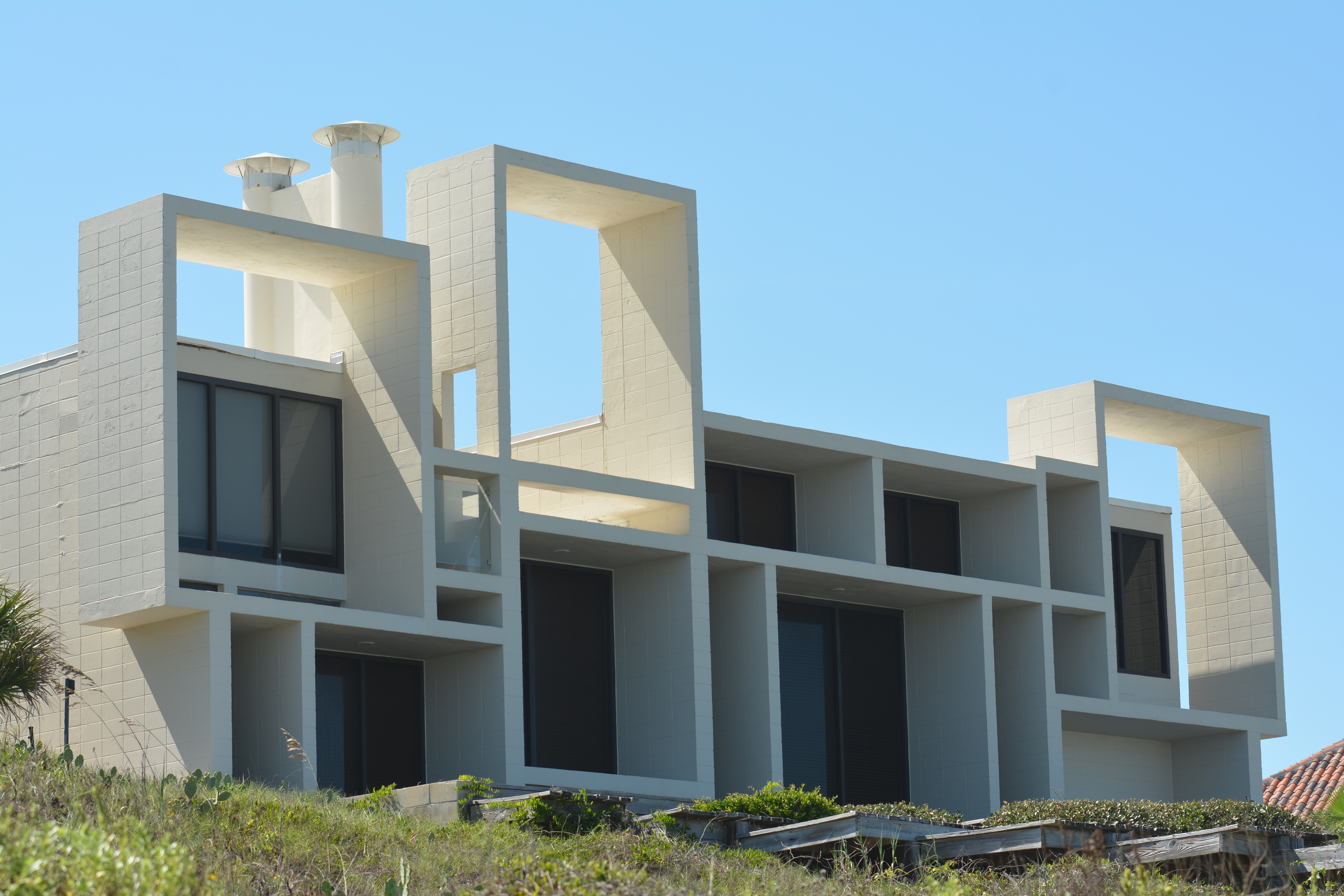 The Arthur Milam House, Ponte Vedra Beach, Florida, U.S.